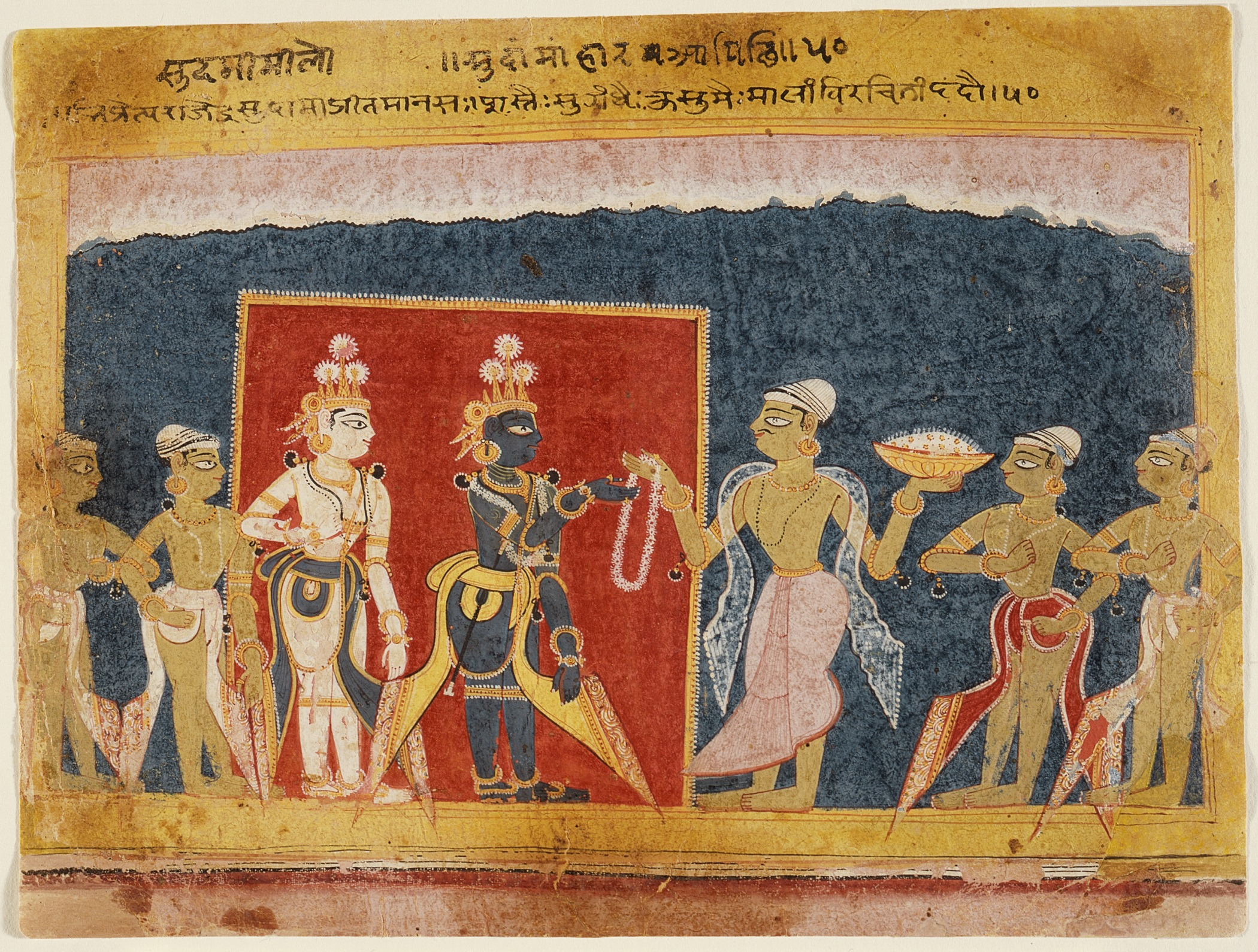 Northern India, 1550-1575 Drawings; watercolors Opaque watercolor and ink on paper Gift of Paul F. Walter (M.83.219.3) South and Southeast Asian Art